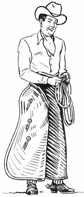 Line art drawing of chaps.